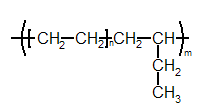 HighDensityPolyethlene03